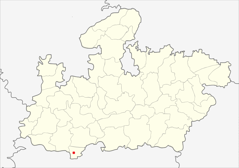 Burhanpur District on map of Madhya Pradesh